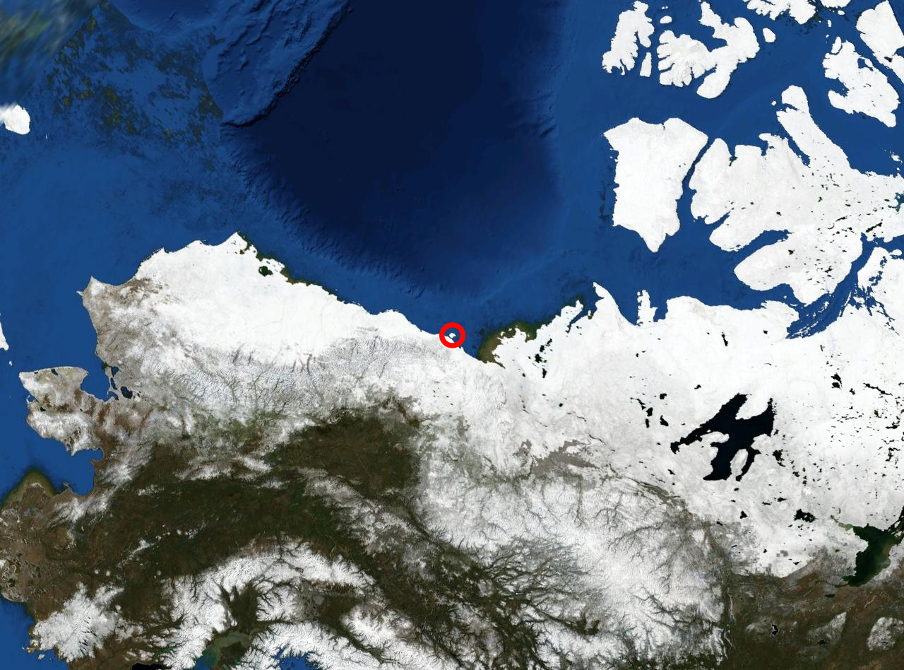 Herschel Island in the arctic, location circled. Basic map is NASA Blue Marble image, with the circle drawn in Inkscape.